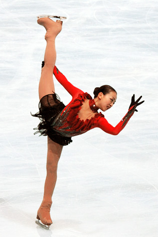 Mao Asada performs a spiral during her free program at the 2009 Trophée Eric Bompard.